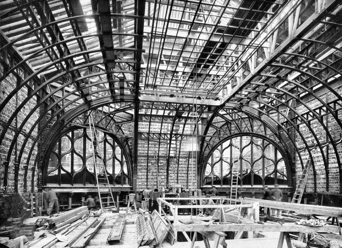 Travaux grand hall - Grand lobby works - 1921 - (1) Construction par l'architecte Alphonse Defrasse.